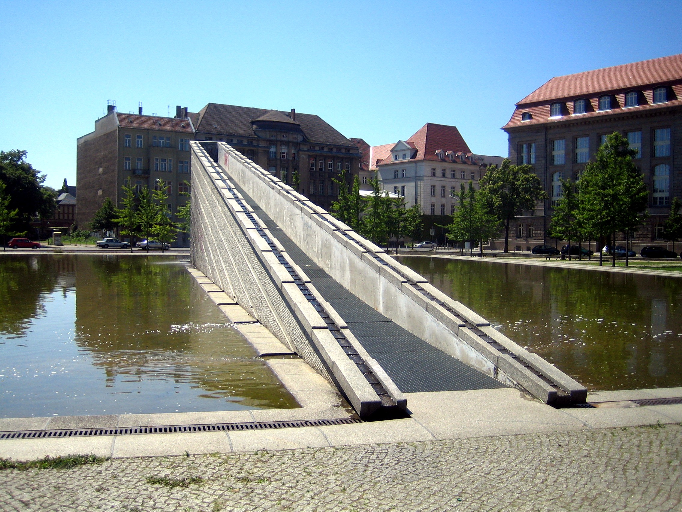 The "Invalidenbrunnen" (also named: "Mauerbrunnen" or "Wasseranlage von Girot"), part of the "Invalidenpark" in Berlin-Mitte/Germany. Design: Christoph Girot.